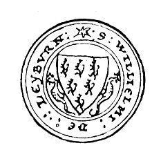 1611 Drawing by Nicholas Charles, Lancaster Herald, of seal of William de Leyburn appended to Barons' Letter 1301 (A Exemplar)